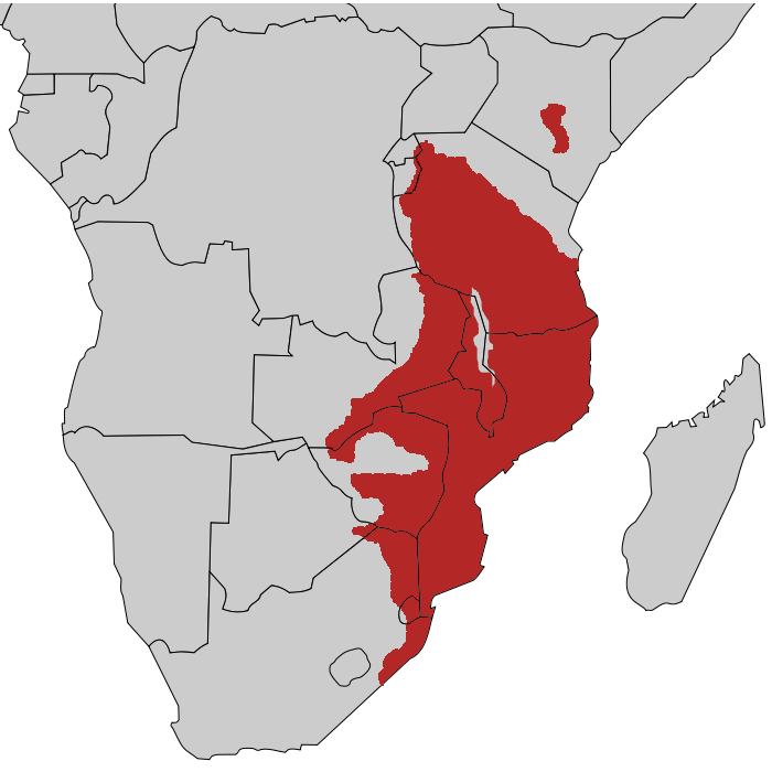 Tauraco porphyreolophus distribution map.